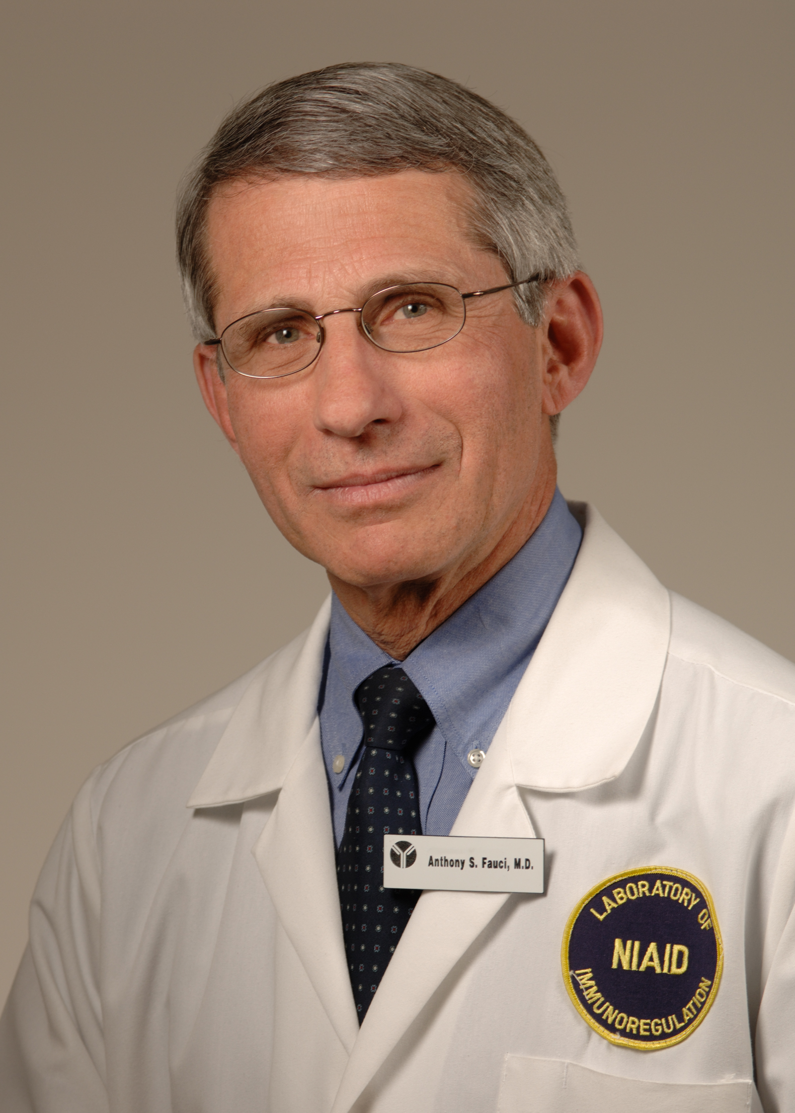 Anthony S. Fauci, M.D., was appointed Director of NIAID in 1984. He oversees an extensive research portfolio of basic and applied research to prevent, diagnose, and treat established infectious diseases such as HIV/AIDS, respiratory infections, diarrheal diseases, tuberculosis and malaria as well as emerging diseases such as Ebola and Zika. Credit: NIAID